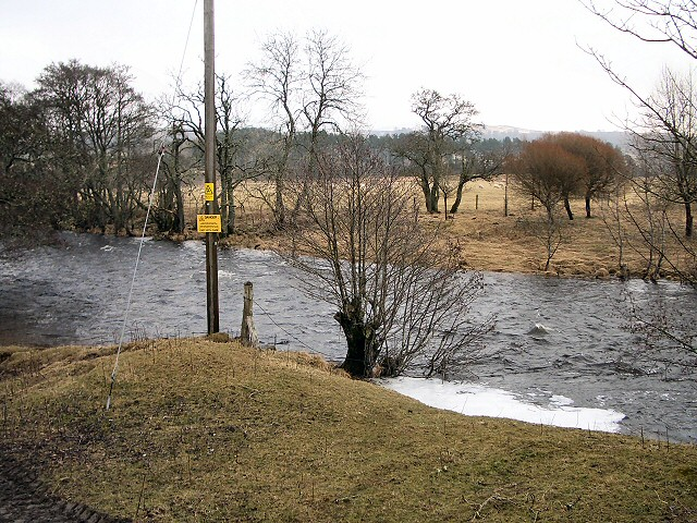 River Ardle. Looking east across the river downstream from Kirkmichael when it was swollen with rain and melting snow. The yellow signs warn anglers about overhead power lines.